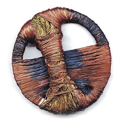 Roland Ferenc Lieb: After Embroidery